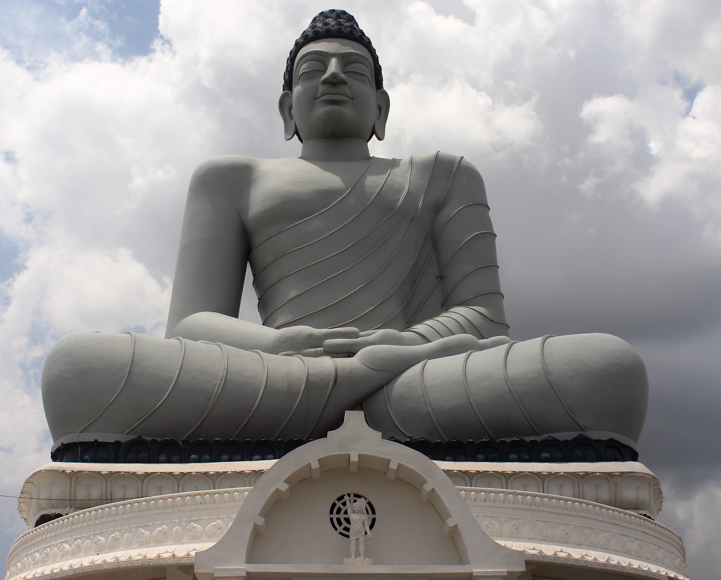 The Dhyana Buddha statue is a statue of a Buddha in Amaravathi, India. The Dhyana Buddha statue of 125 ft (38 m) is situated on the banks of Krishna river in 4.5 acres (1.8 ha) with eight pillars on a Lotus pandal.